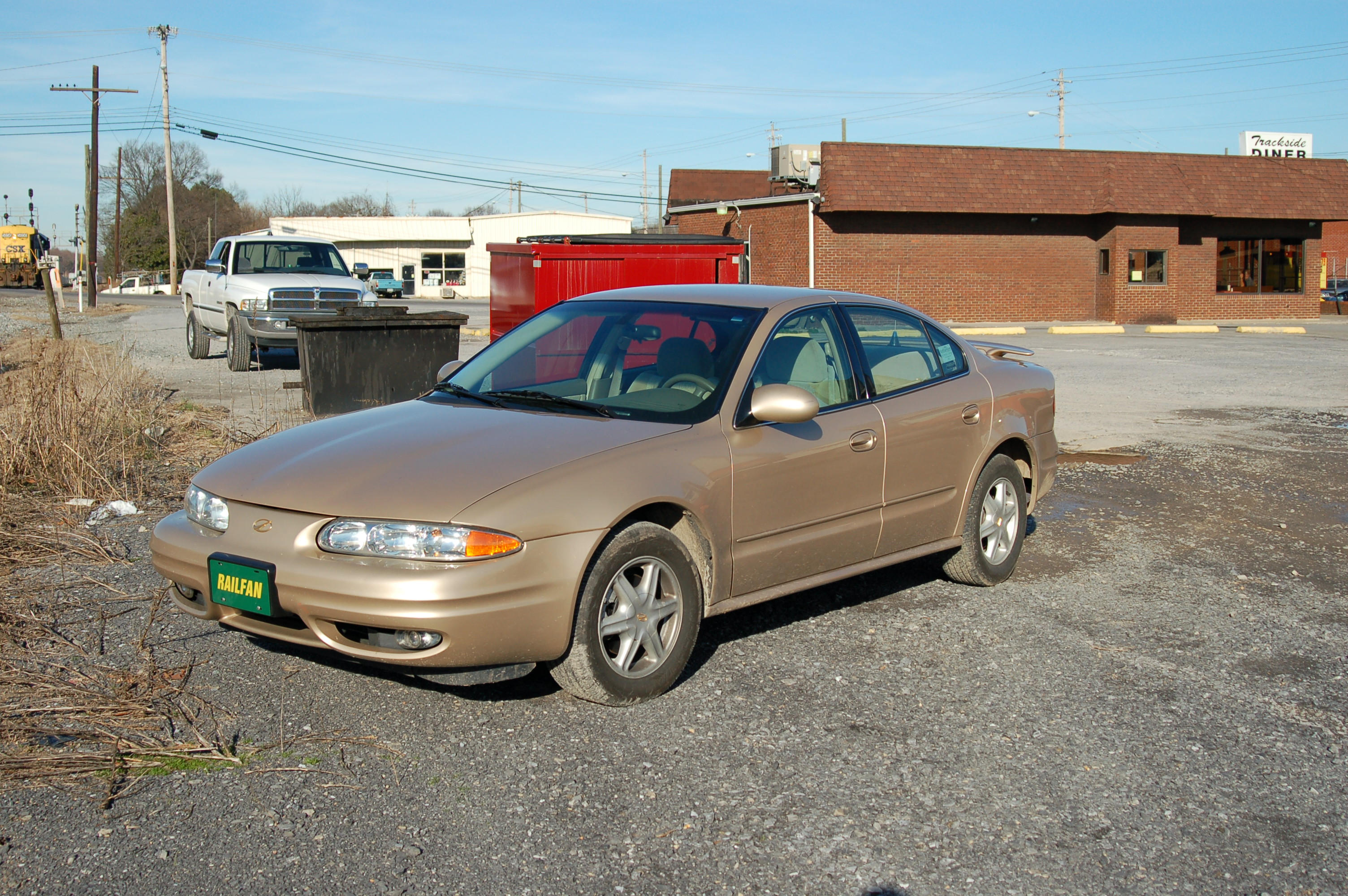 (2002 Oldsmobile Alero shot in Dalton, while chasing Norfolk Southern 4610, this car is owned by Jason Trew.)